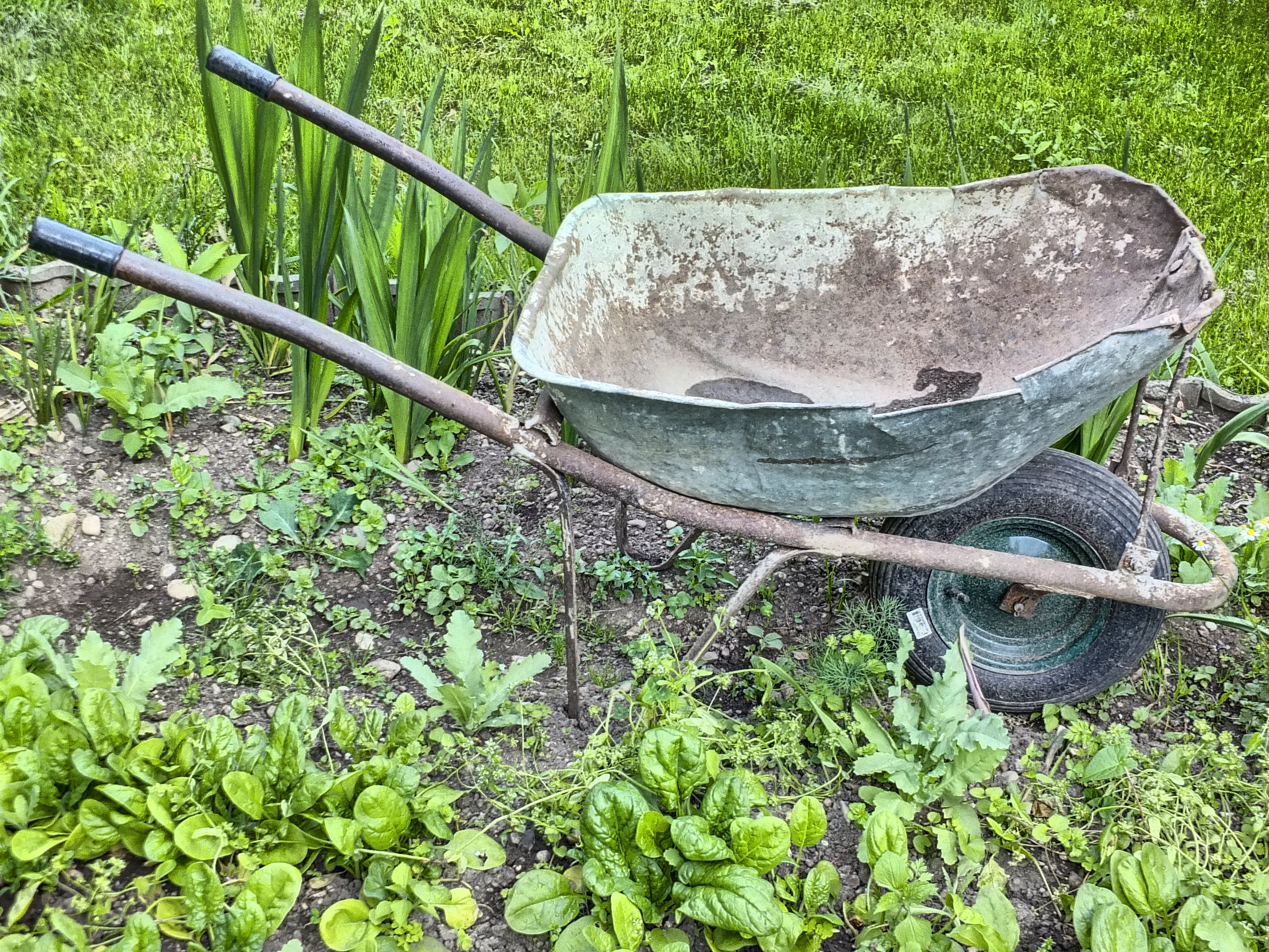 wheelbarrow at the garden of catholic priests